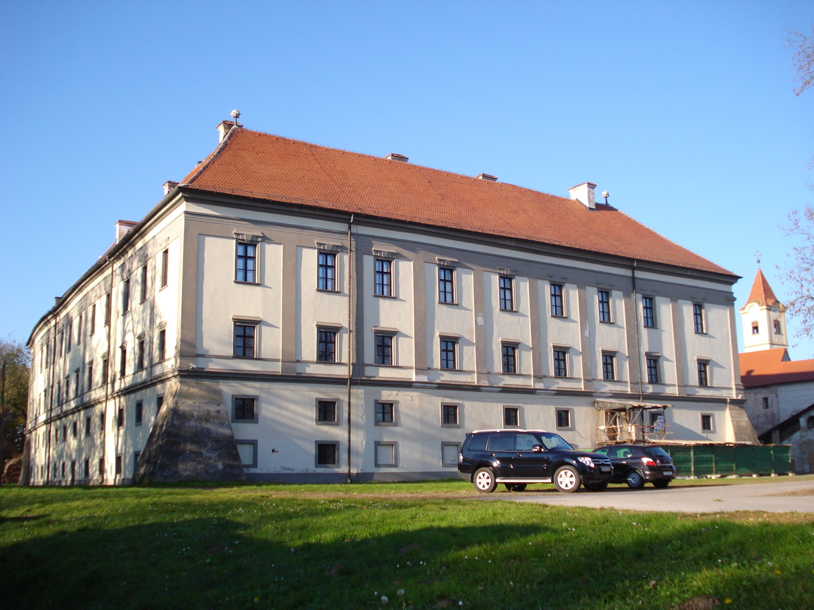 Zrinski Castle in Čakovec (Croatia) - inner palace with museum (south view)